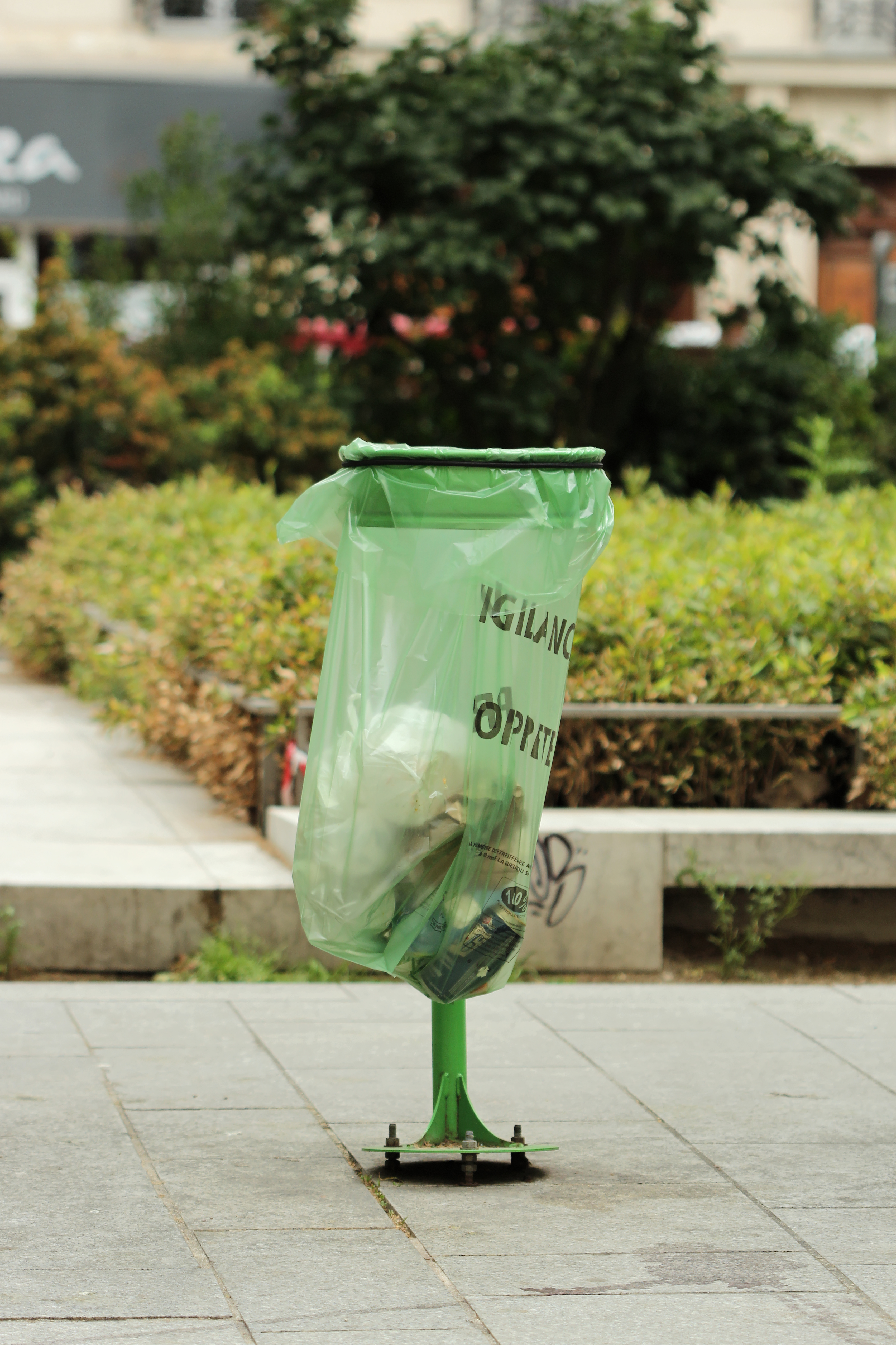 Trash bag, boulevard Richard-Lenoir, Paris.